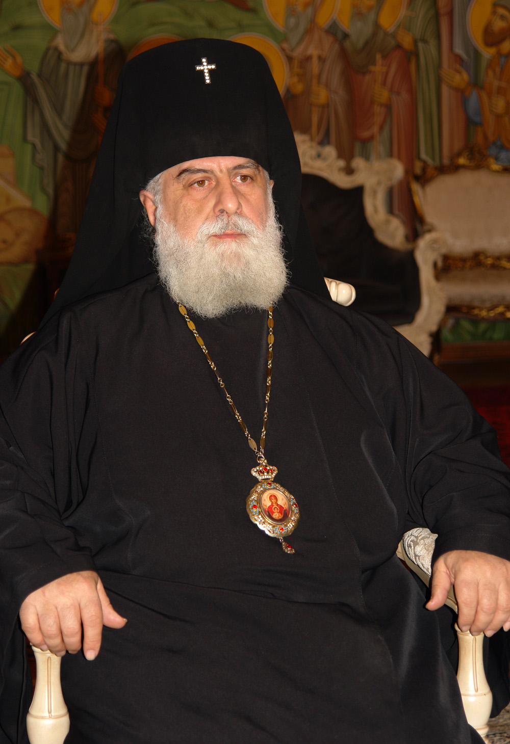 Bishop Anania's image